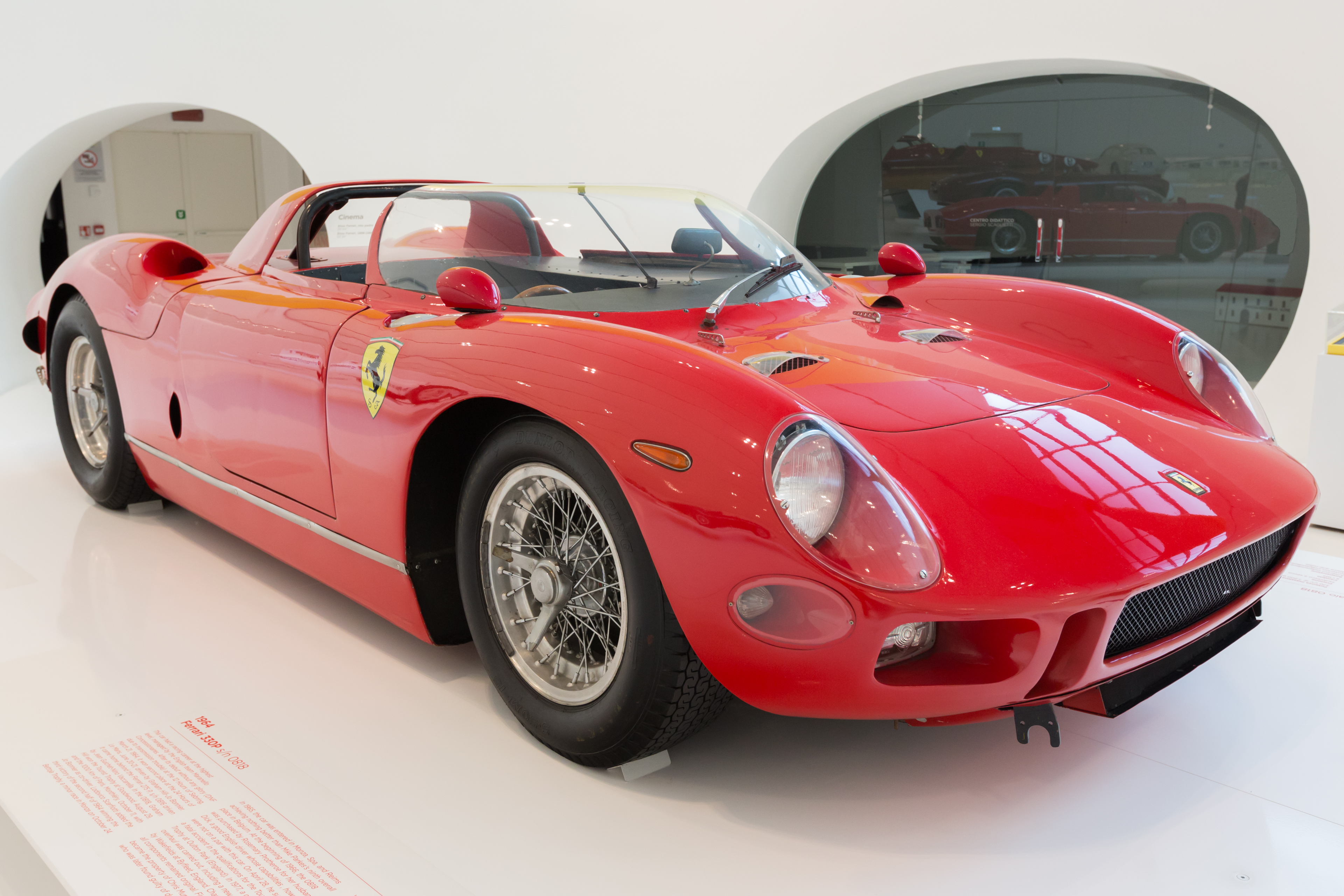 1964 Ferrari 330P s/n 0818